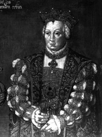 Portrait of Dorothy of the Palatinate, daughter of King Christian II of Denmark, Norway and Sweden